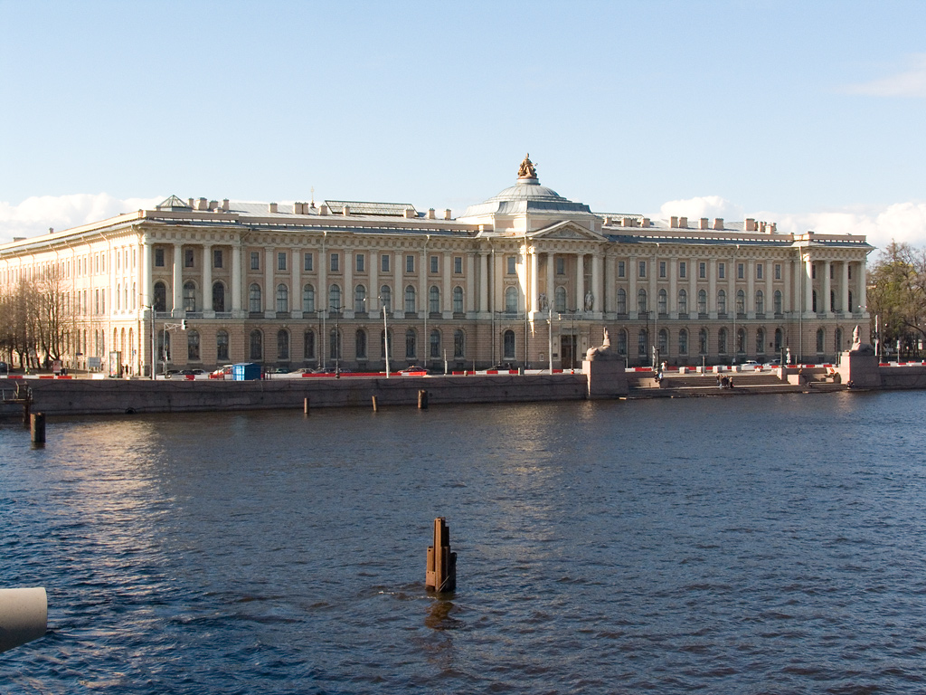 Saint Petersburg (Russia), Imperial Academy of Arts.